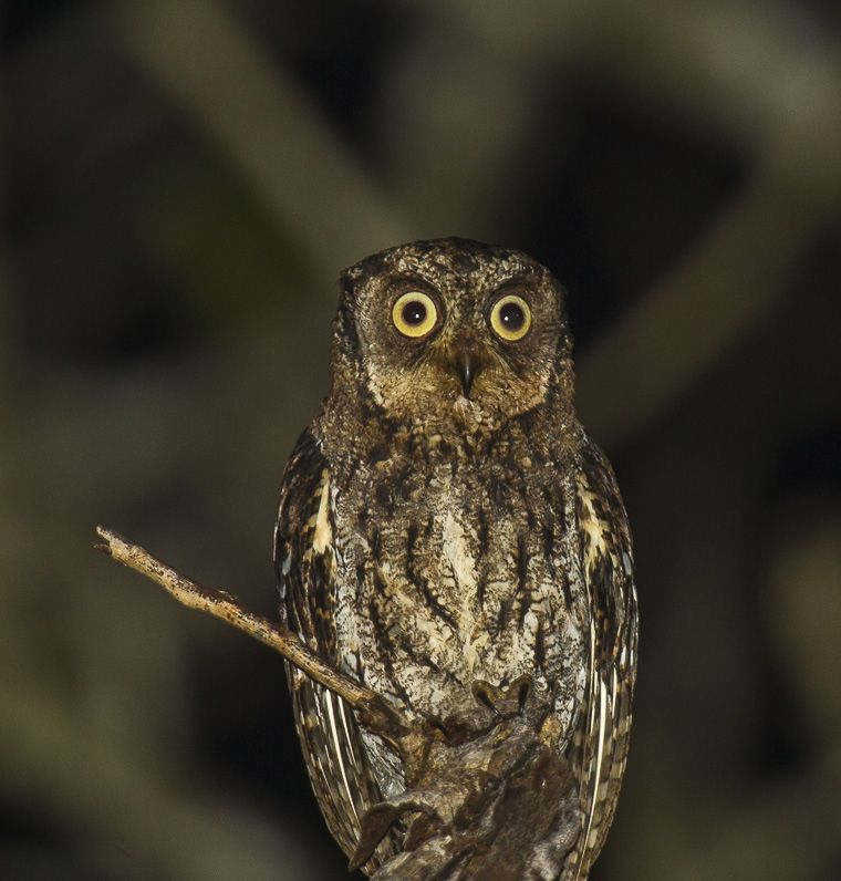 Moluccan Scops Owl (Otus magicus)